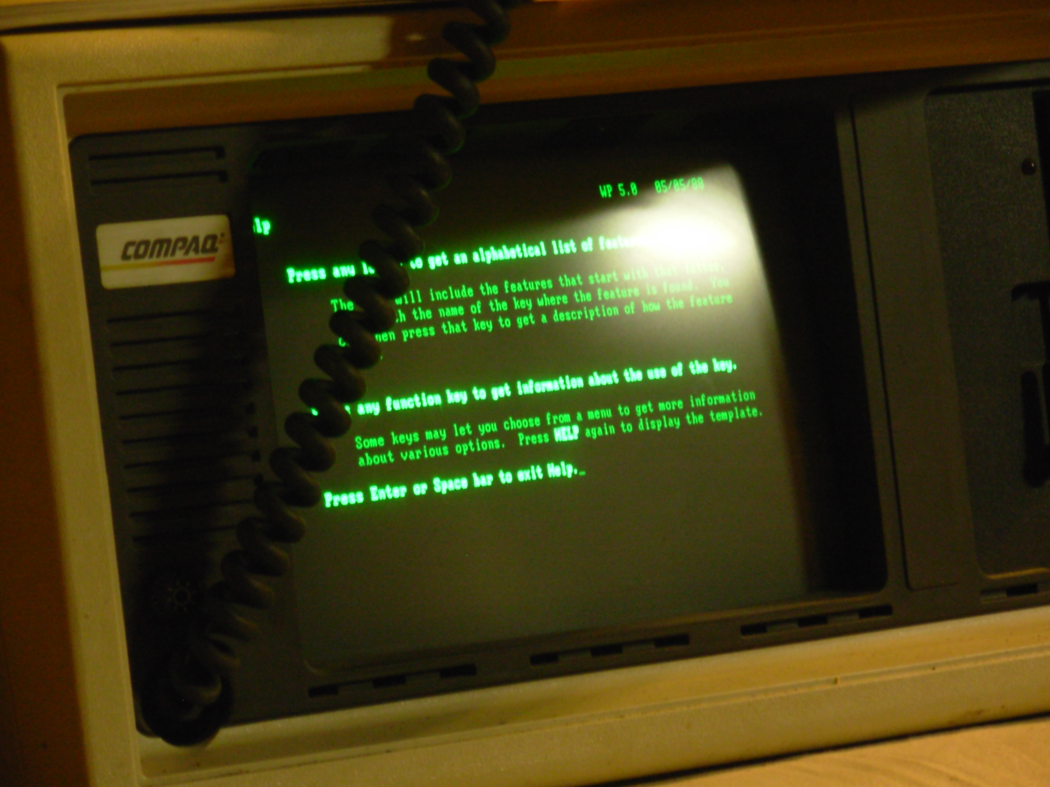 A Compaq Portable home computer (circa 1983) running Corel WordPerfect 5.0.